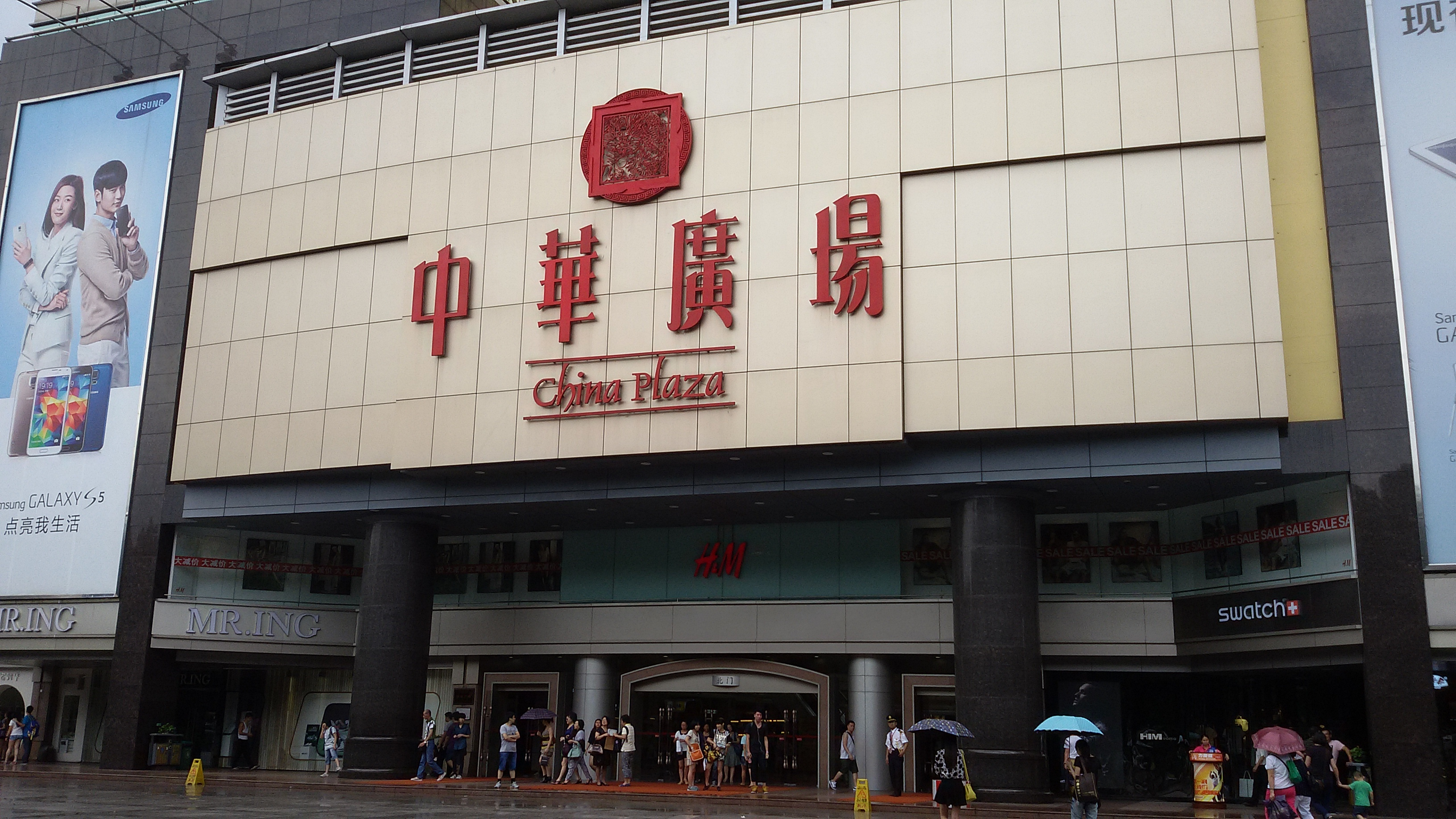 China Plaza (Canton) 粵語: 廣州嘅中華廣場